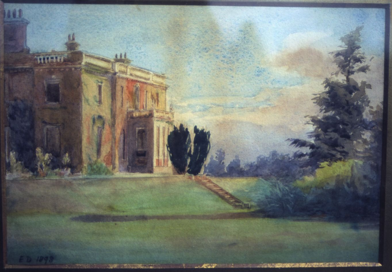 scan of a photo of a watercolour painting of Conyboro, signed and dated E. Dodson, 1898. Ethel-Millicent Dodson (1859- ) was the younger of the two daughters of John George Dodson, 1st Baron Monk Bretton. (repro rights by descent & permission given) (scan & photo: R. de Salis, 2006)Rodolph (talk) 19:19, 23 December 2007 (UTC)